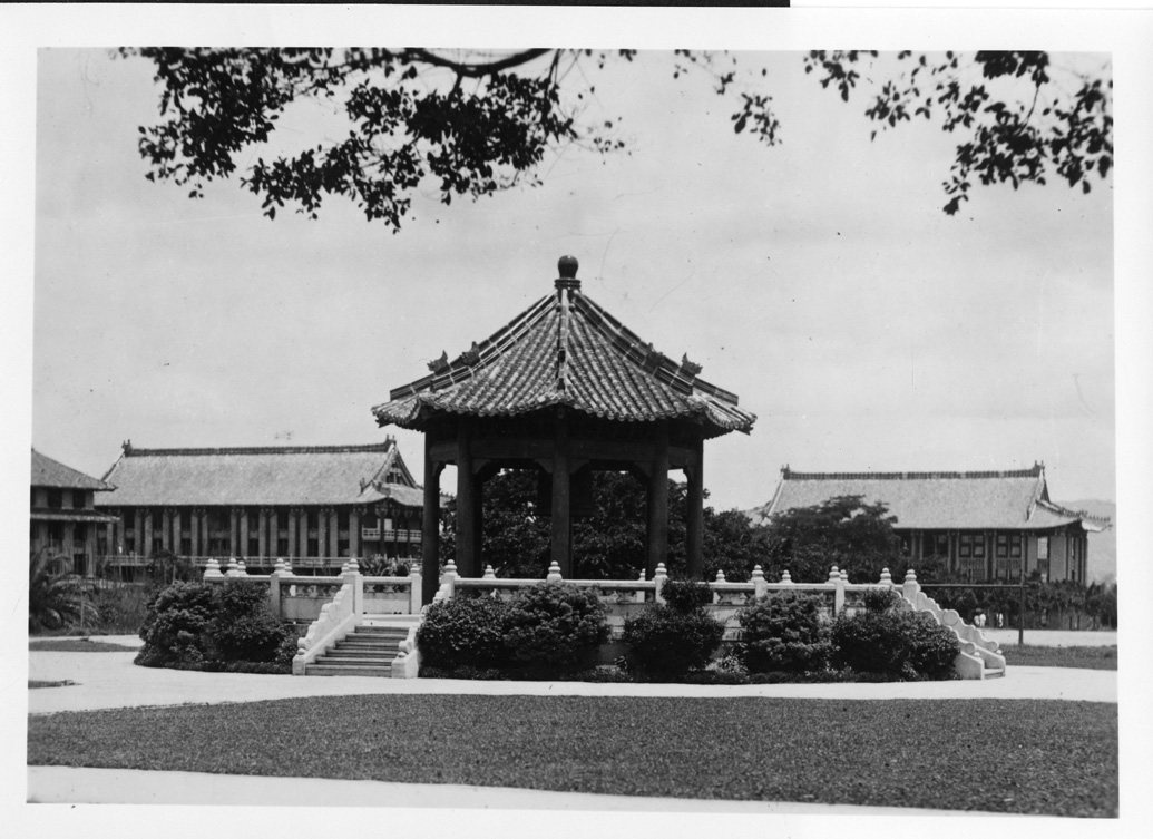 Buildings and scenes: misc. The Central Bell Tower(Xing Pavilion)